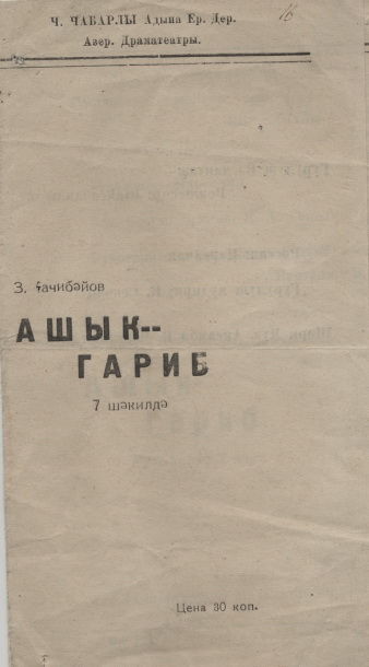 Program of opera "Ashiq Qarib" in Yerevan State Azerbaijani Theatre named after Jabbar Jabbarly